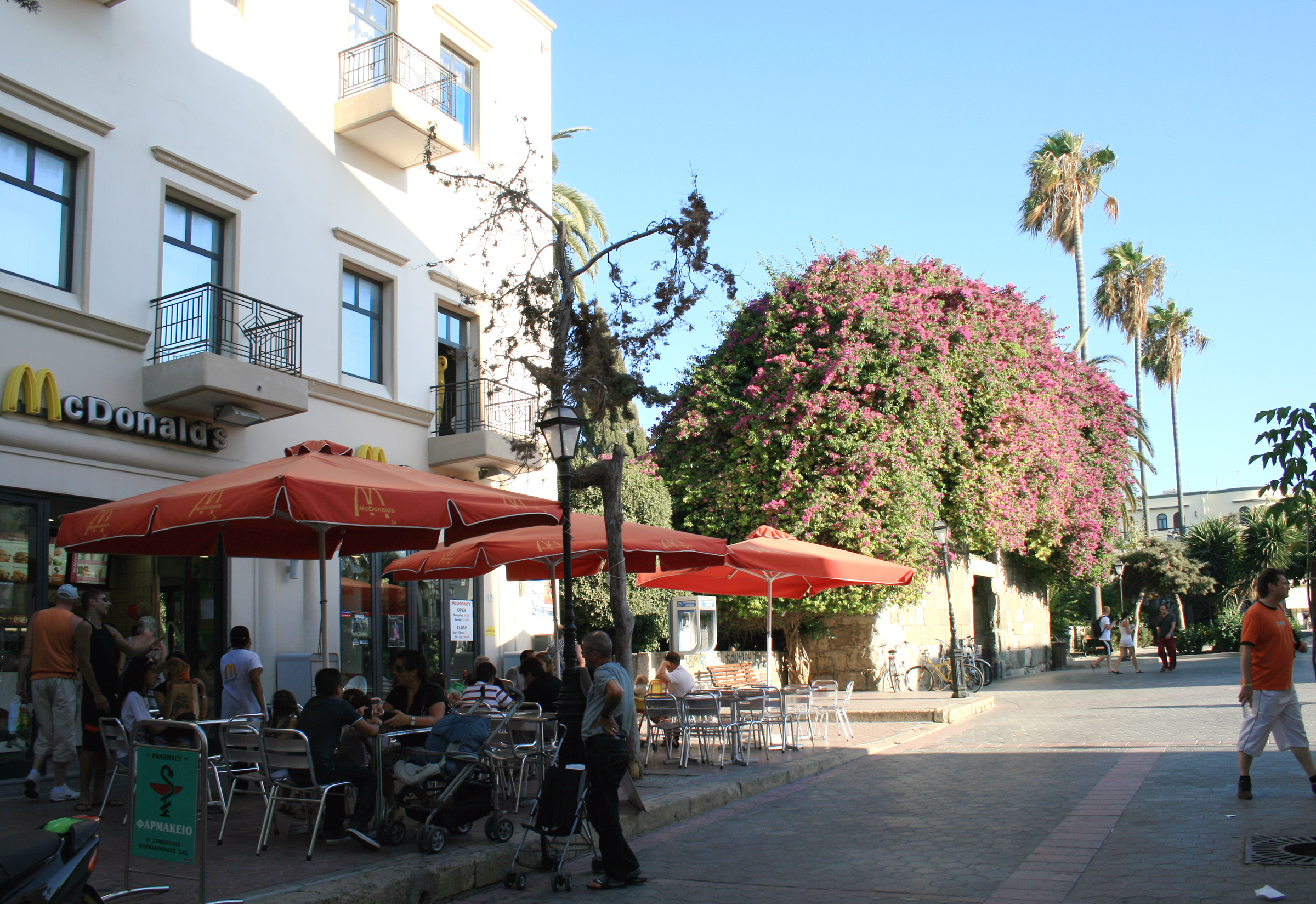 McDonald´s restaurant in town Kos on Kos island, Greece